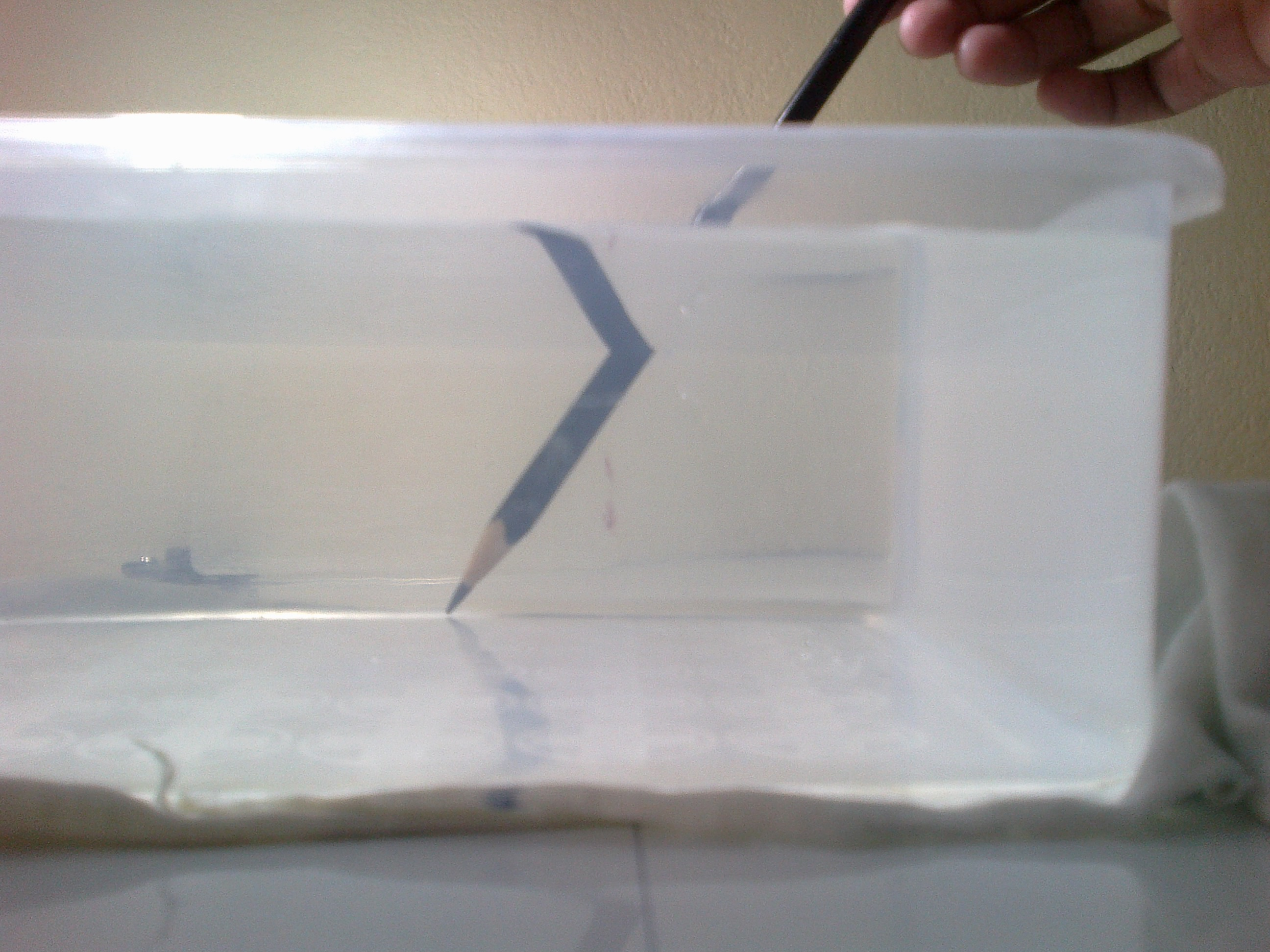 Mirror like effect.Observe the actual position of pencil, its refraction and its reflection. Notice there is no refraction where mirror effect is present.